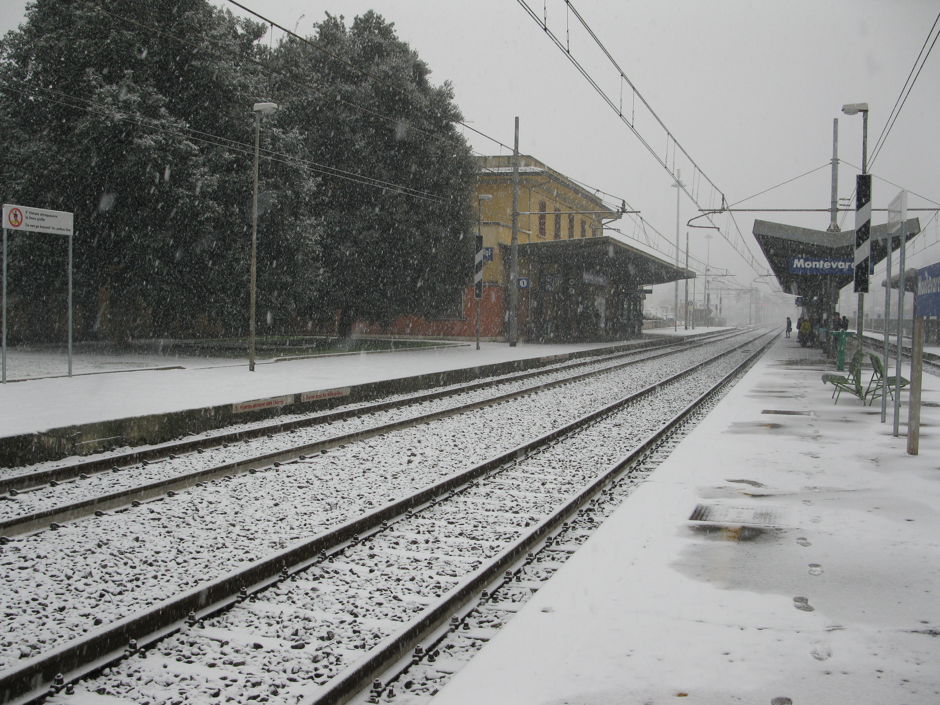 Montevarchi railway station, after a snowfall.